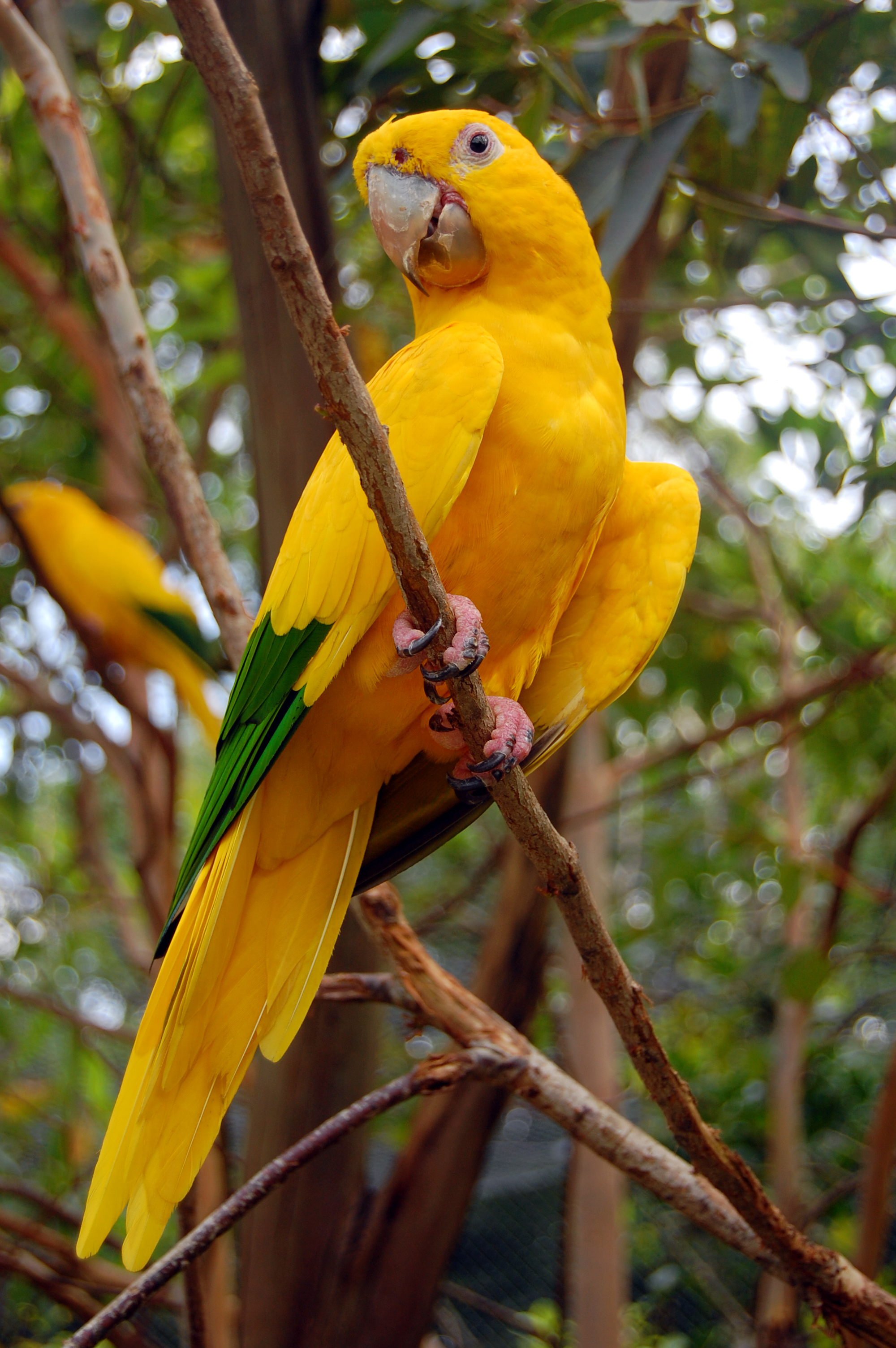 Golden Parakeet (also known or Golden Conure) at Gramado Zoo, in south Brazil.